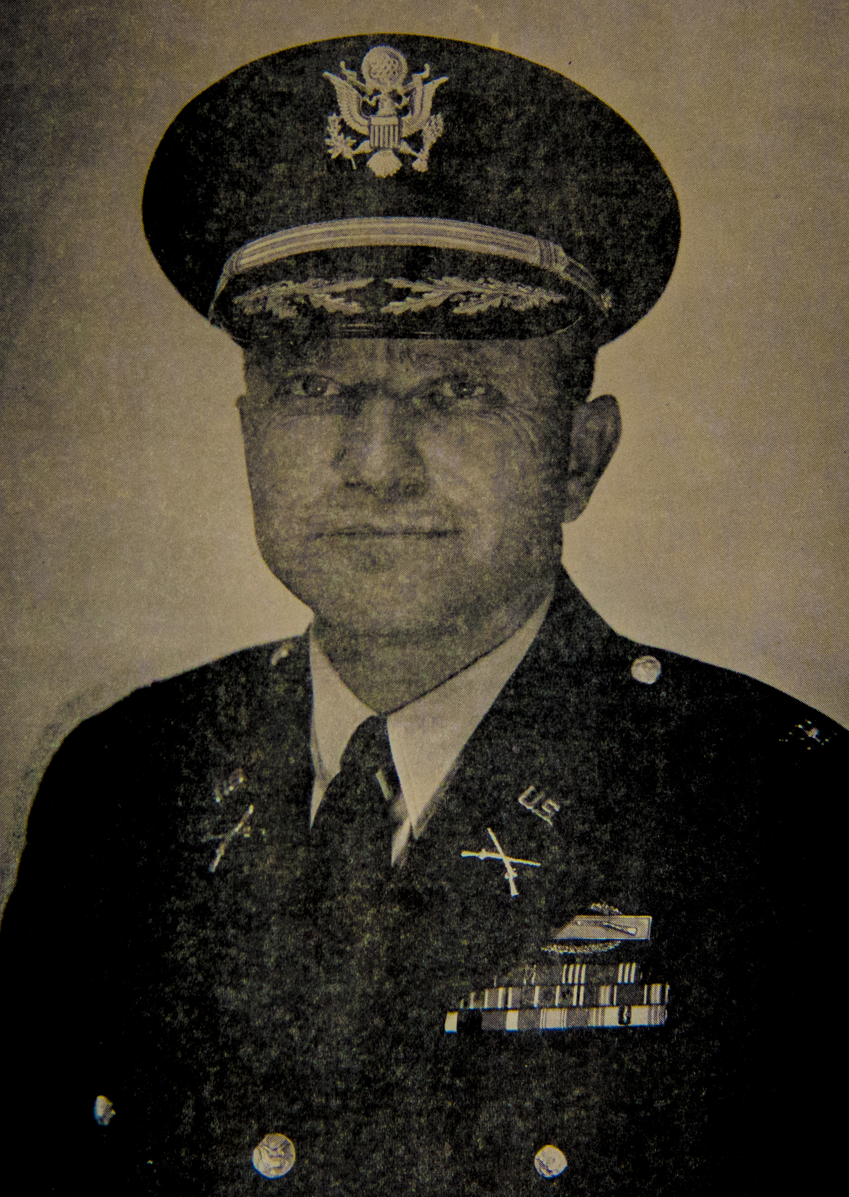 Addison Millard